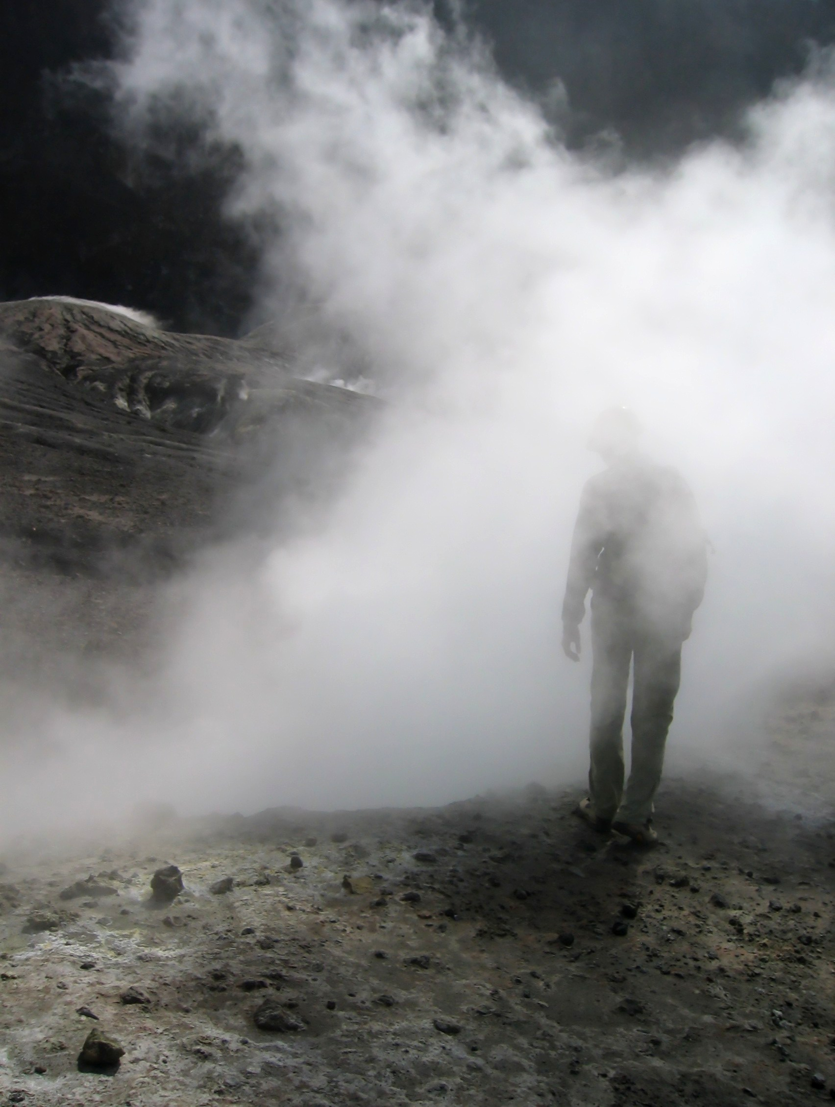 Man walking into the mist, within the crater of Whakaari/White Island.